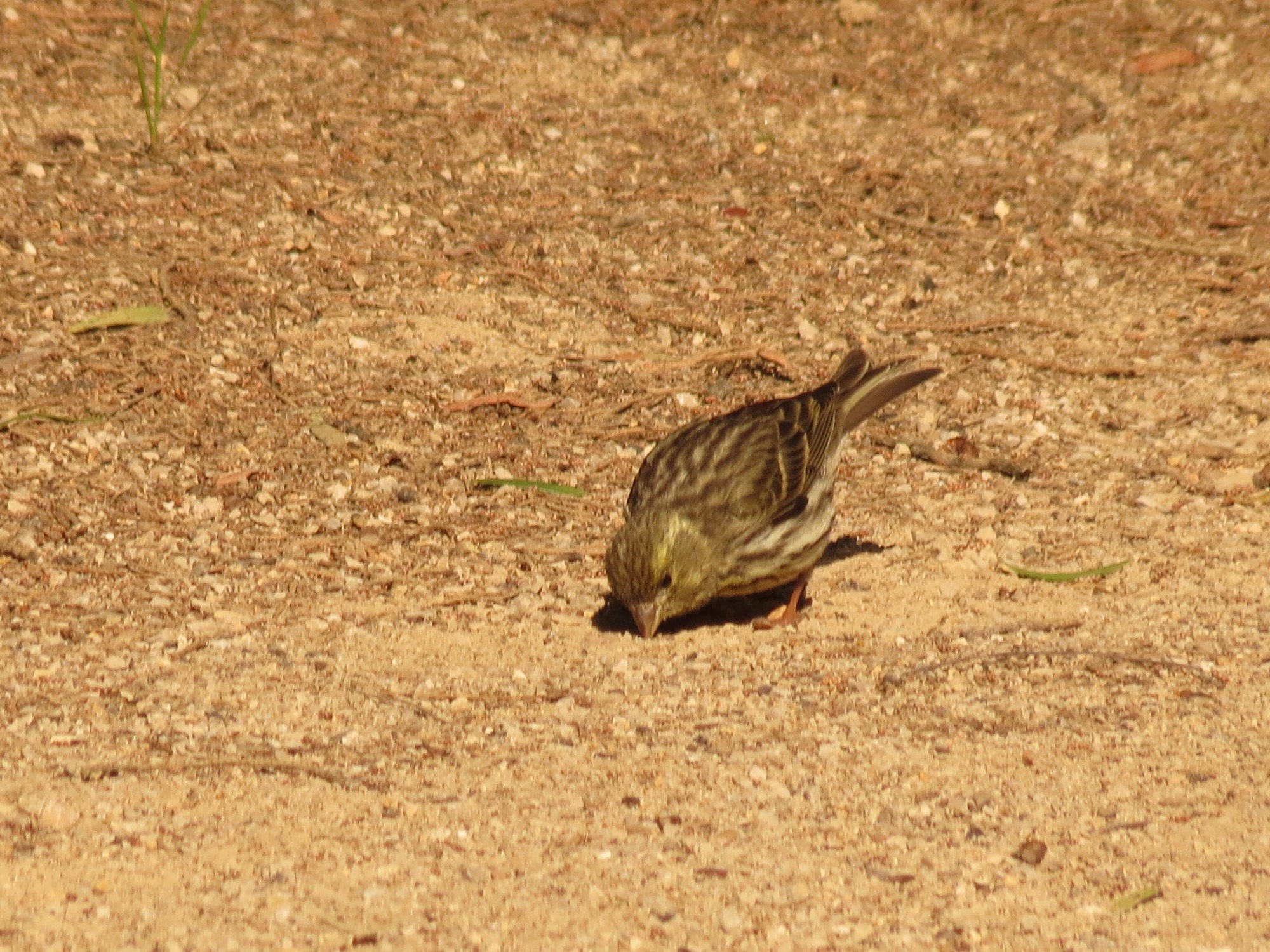 Serinus serinus (Linnaeus, 1766), European Serin, female, Roda de Barà, Spain, 10 May 2013